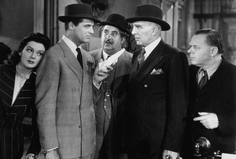 L. to R. : Rosalind Russell, Cary Grant, Billy Gilbert, Clarence Kolb & Gene Lockhart in His Girl Friday - cropped screenshot. Rosalind Russell is wearing a costume designed by costume designer Robert Kalloch.